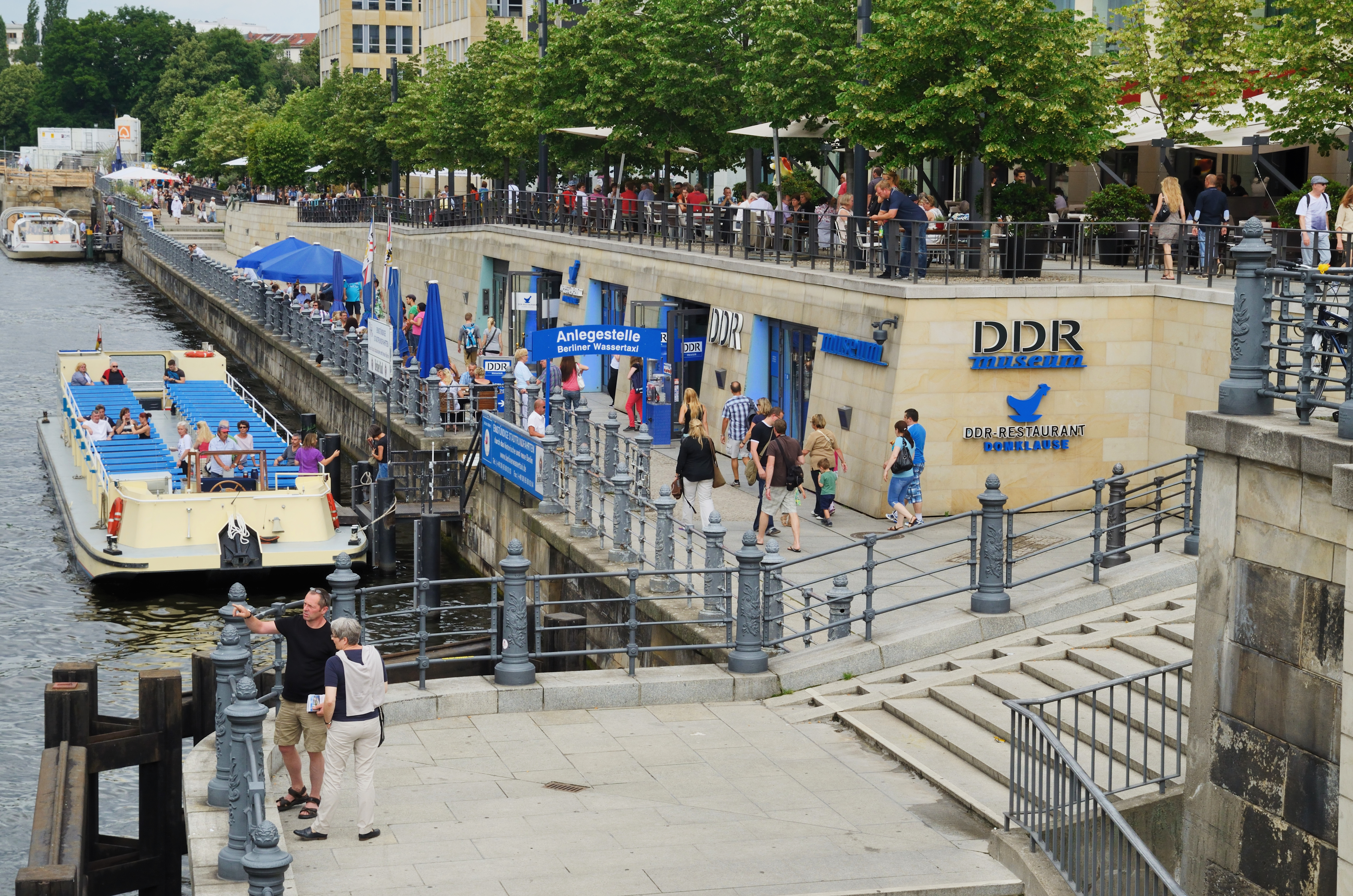 Berlin: DDR museum